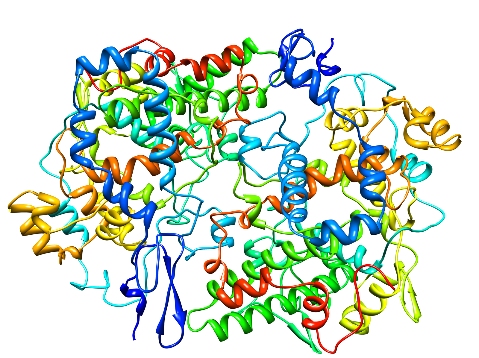 Prostaglandin H2 Synthase-1 Complex PDB 1CQE The PDB structure includes the inhibitor flurbiprofen bound to the active site. For the sake of simplicity I have removed the inhibitor and this rendering only shows the synthase-1 complex. Molecular graphics images were produced using the UCSF Chimera package from the Resource for Biocomputing, Visualization, and Informatics at the University of California, San Francisco.